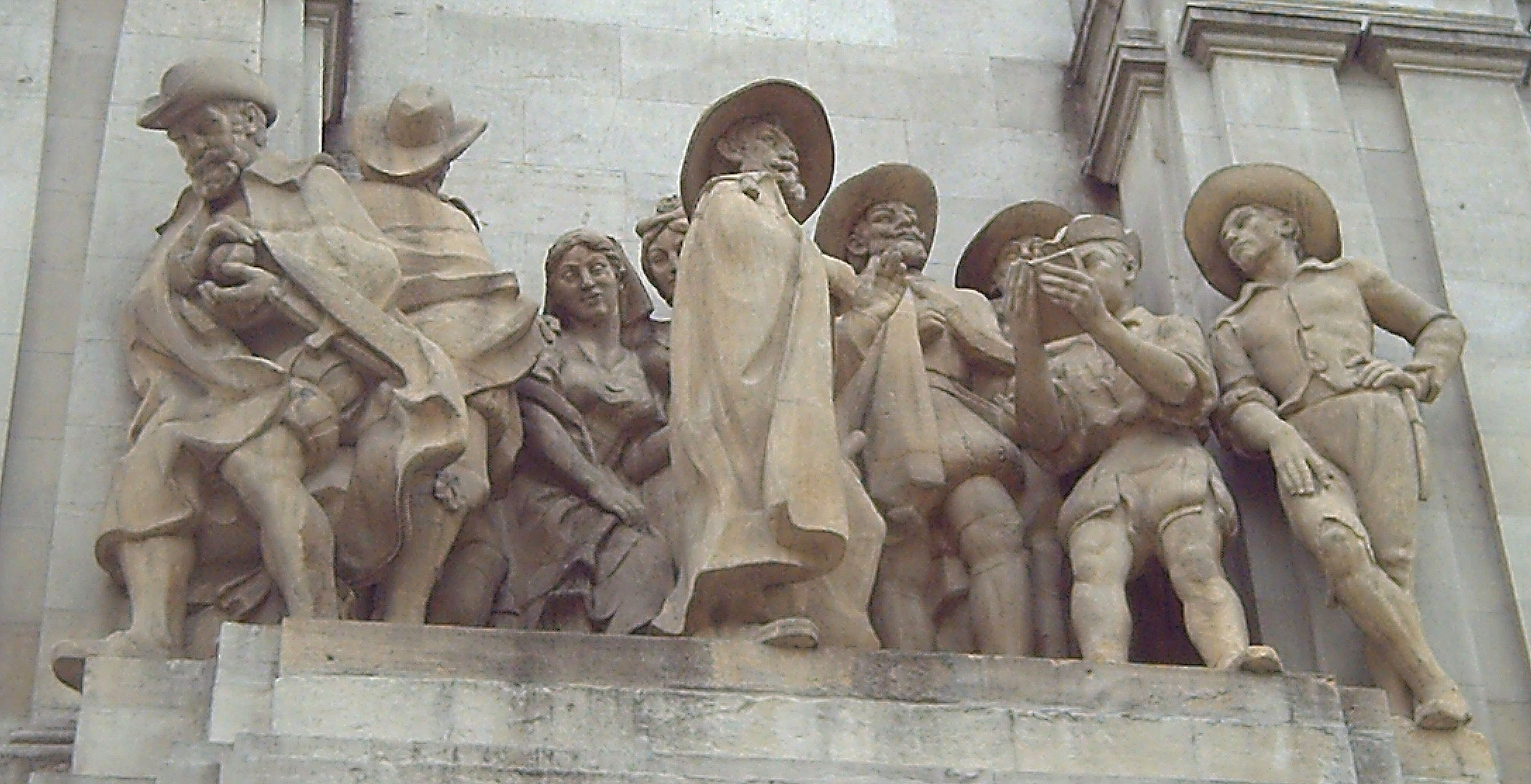 Rinconete and Cortadillo. Stone sculptural group made by Federico Coullaut-Valera Mendigutia (1912–1989). Added in 1960 to the monument to Cervantes (1925–30, 1956–57) at the Plaza de España ("Spain Square") in Madrid.